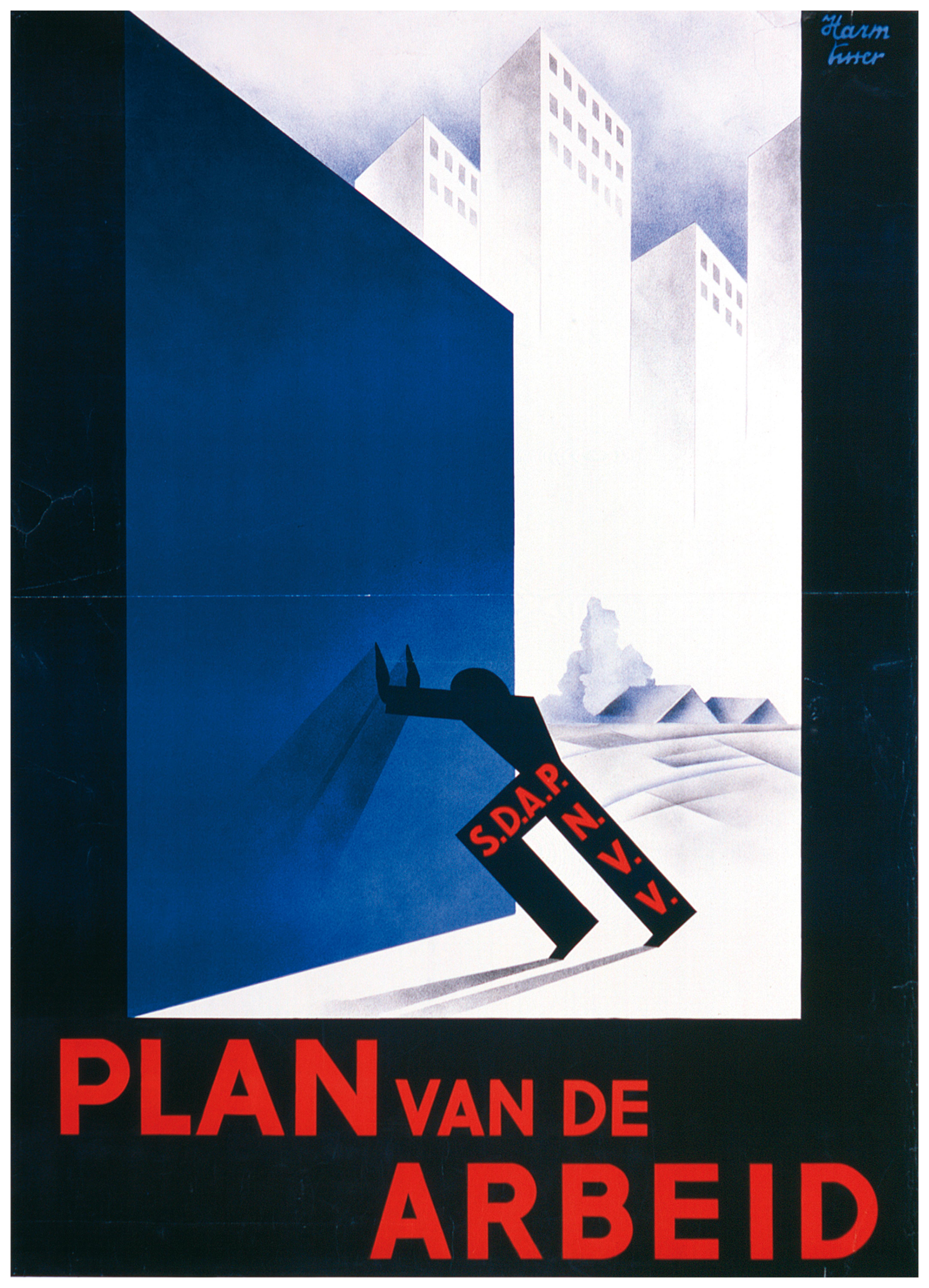 promotion poster of the SDAP and the NVV of ther "plan for the labour", opposing the economic plan bij the Colijn kabinet.